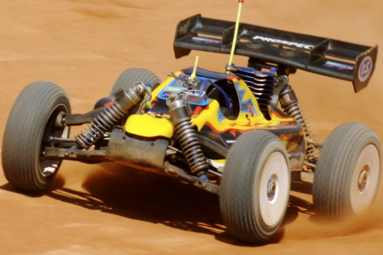 buggy rc car